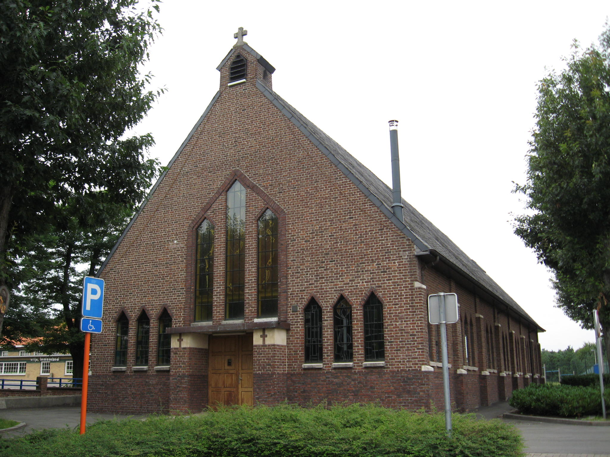 Church of the Blessed Virgin Mary in Zonhoven (Termolen), Limburg, Belgium